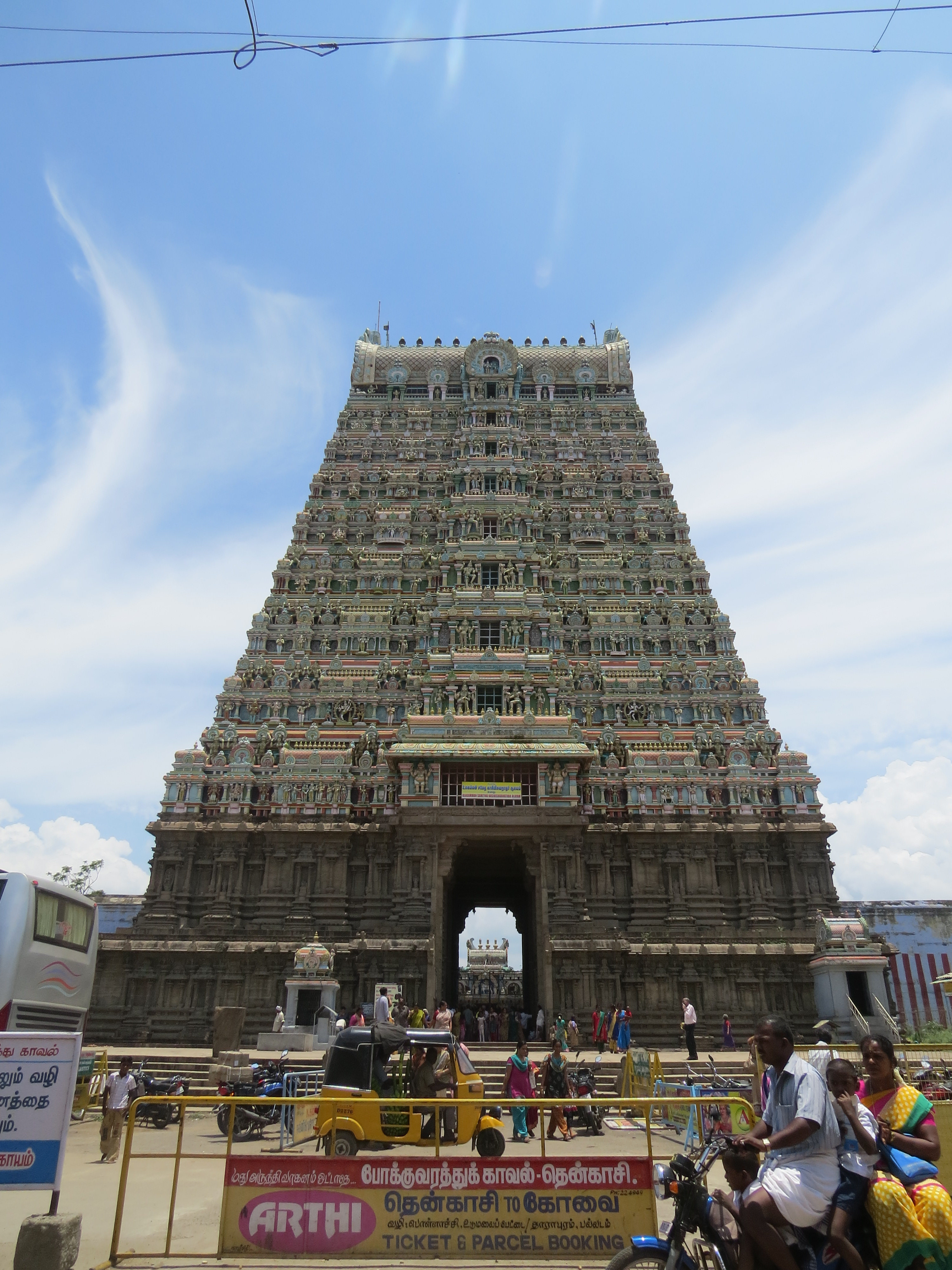 Photos from Thenmala and South India tour 2014 by Vinayaraj